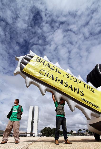 Stop the chainsans.